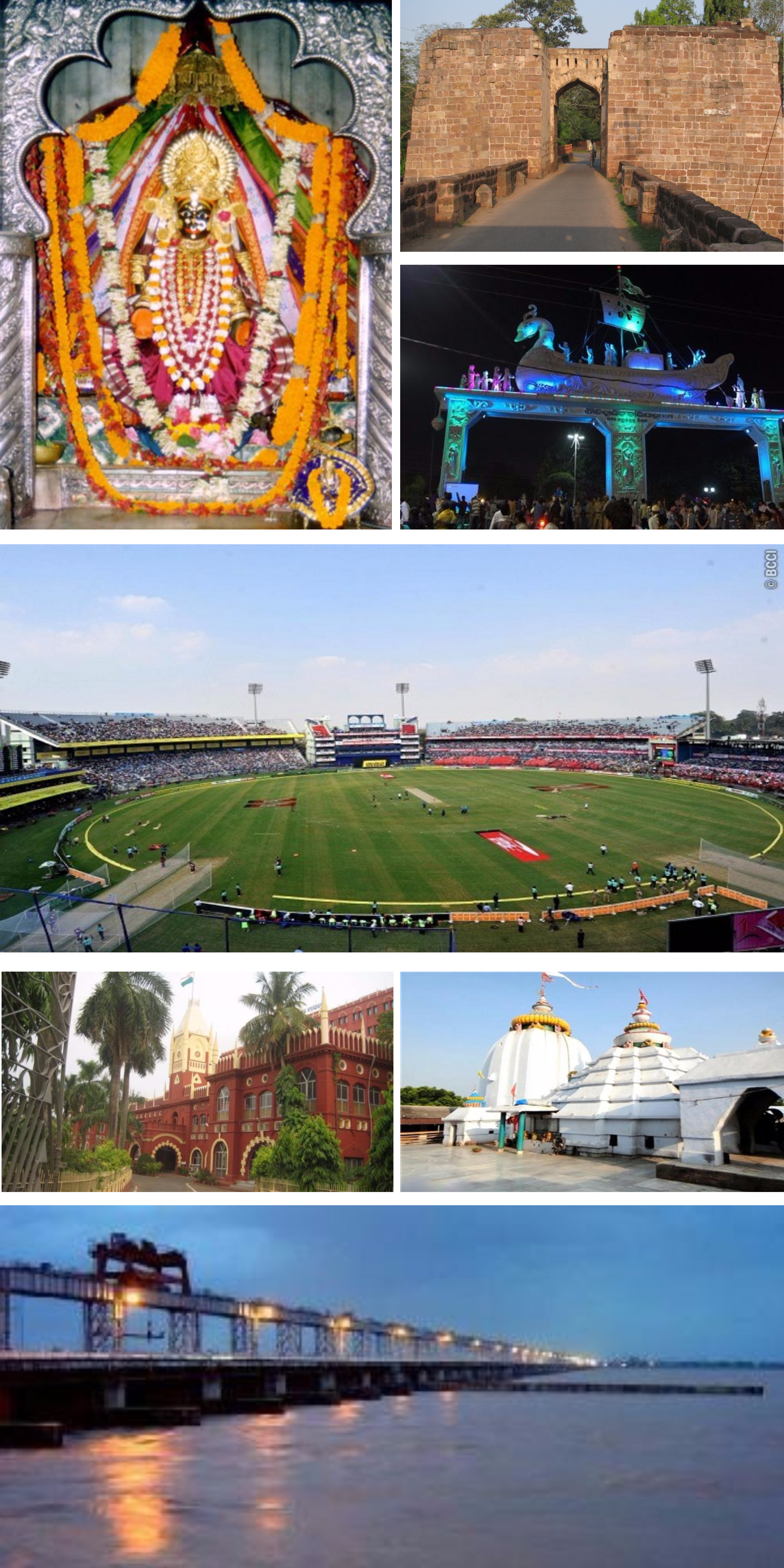 montsge